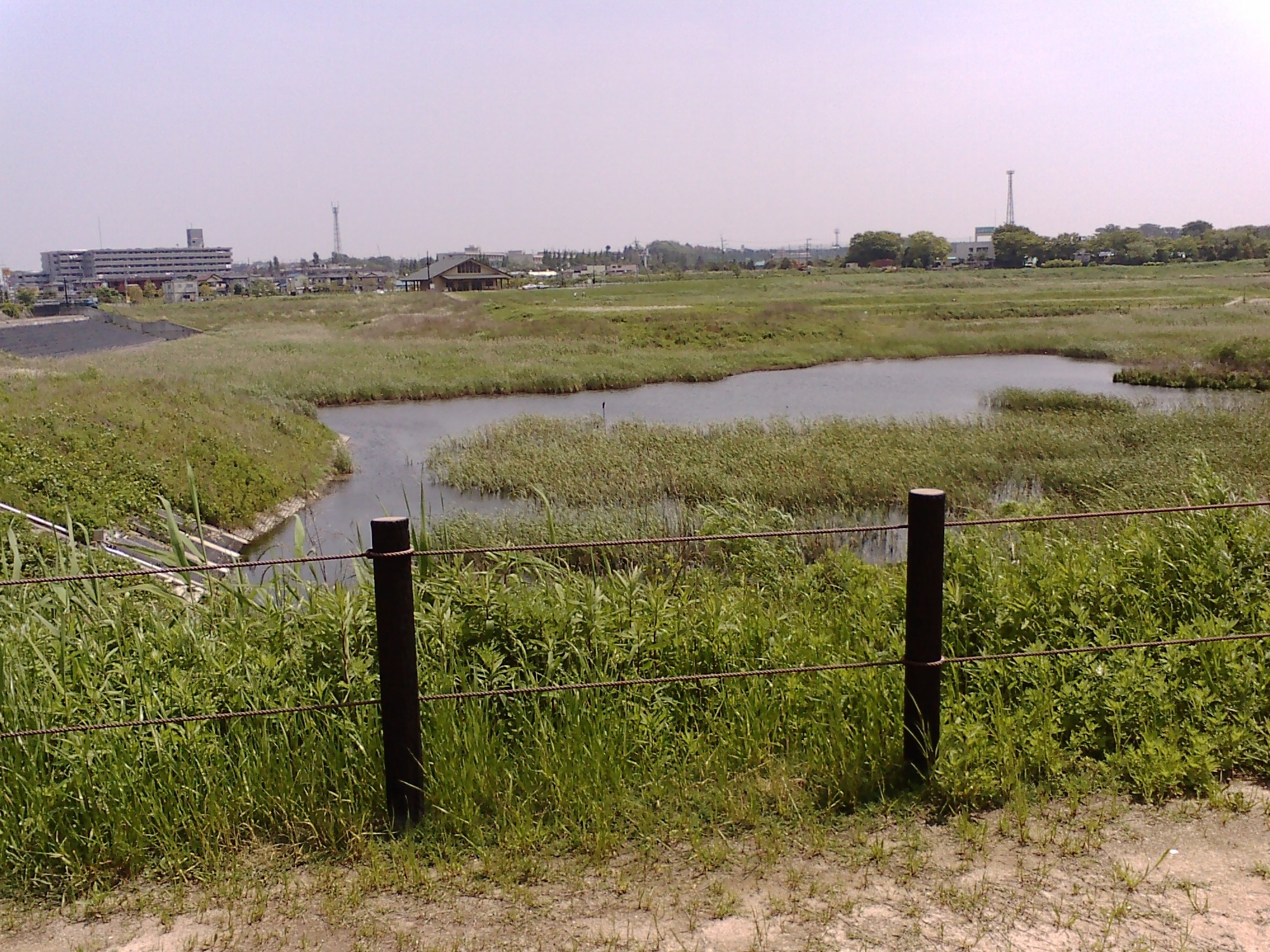 Ookashiwagawa river (in north area of Ichikawa city, Chiba Japan), 1st regulating pondage (left end: overflow or overtopping bank intend to water flow from river to pondage, center: visitors house), Photo on 25 May 2008